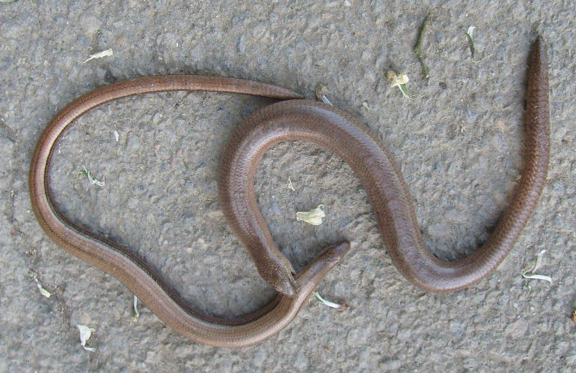 Male and female anguis fragilis mating